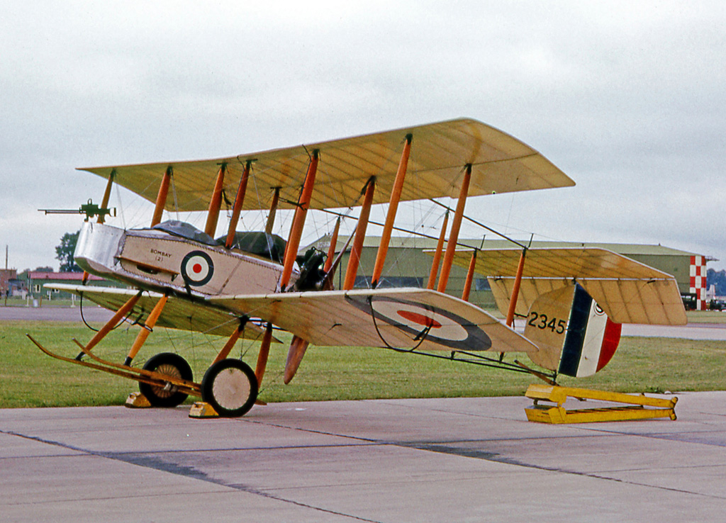 Vickers FB.5 Gunbus flying replica G-ATVP, painted as 2345 of the Royal Flying Corps, at Yeovilton in 1966